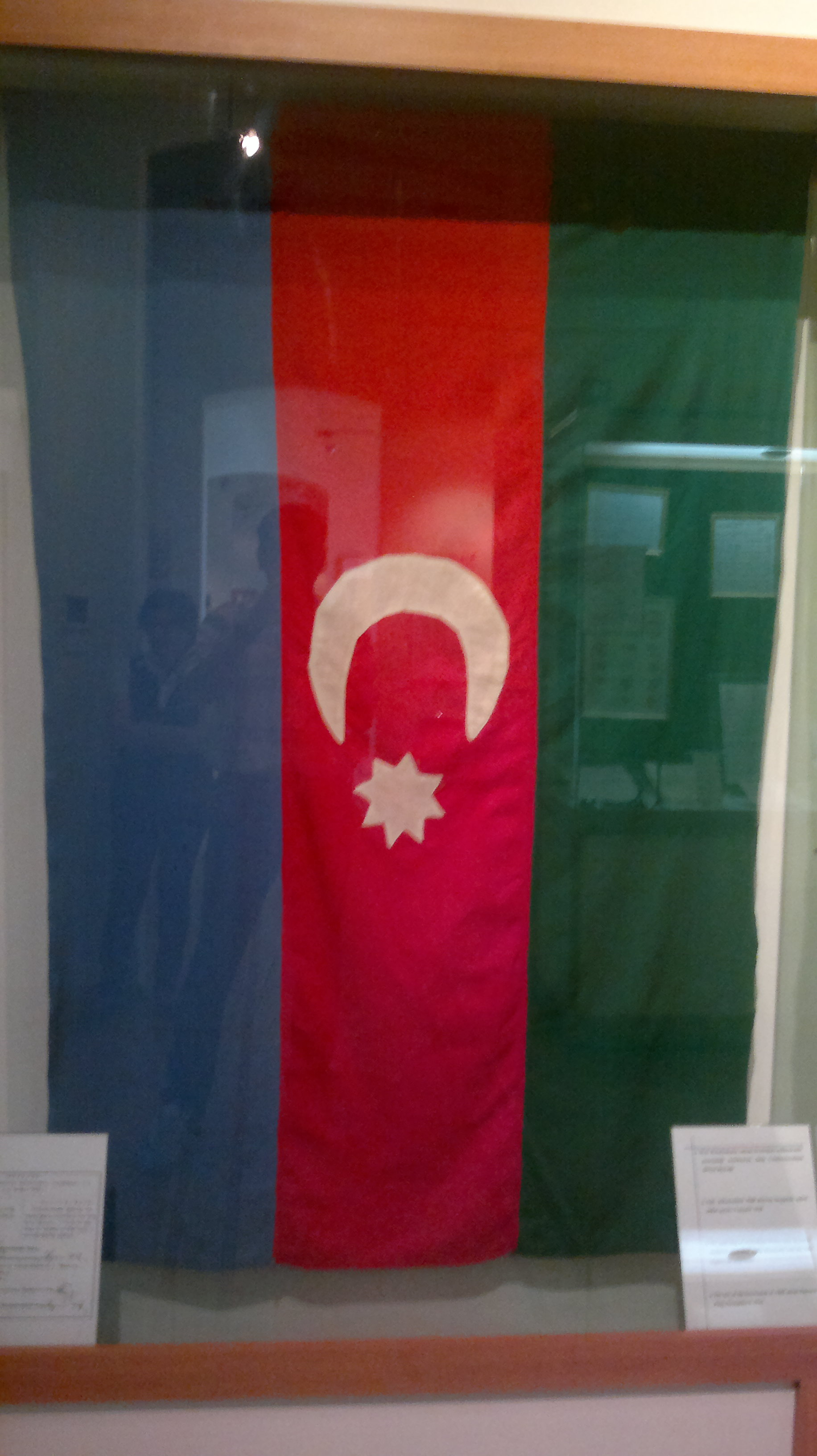 The state flag of Azerbaijan Democratic Republic made by Mammad Amin Rasulzade and his wife during the migration.